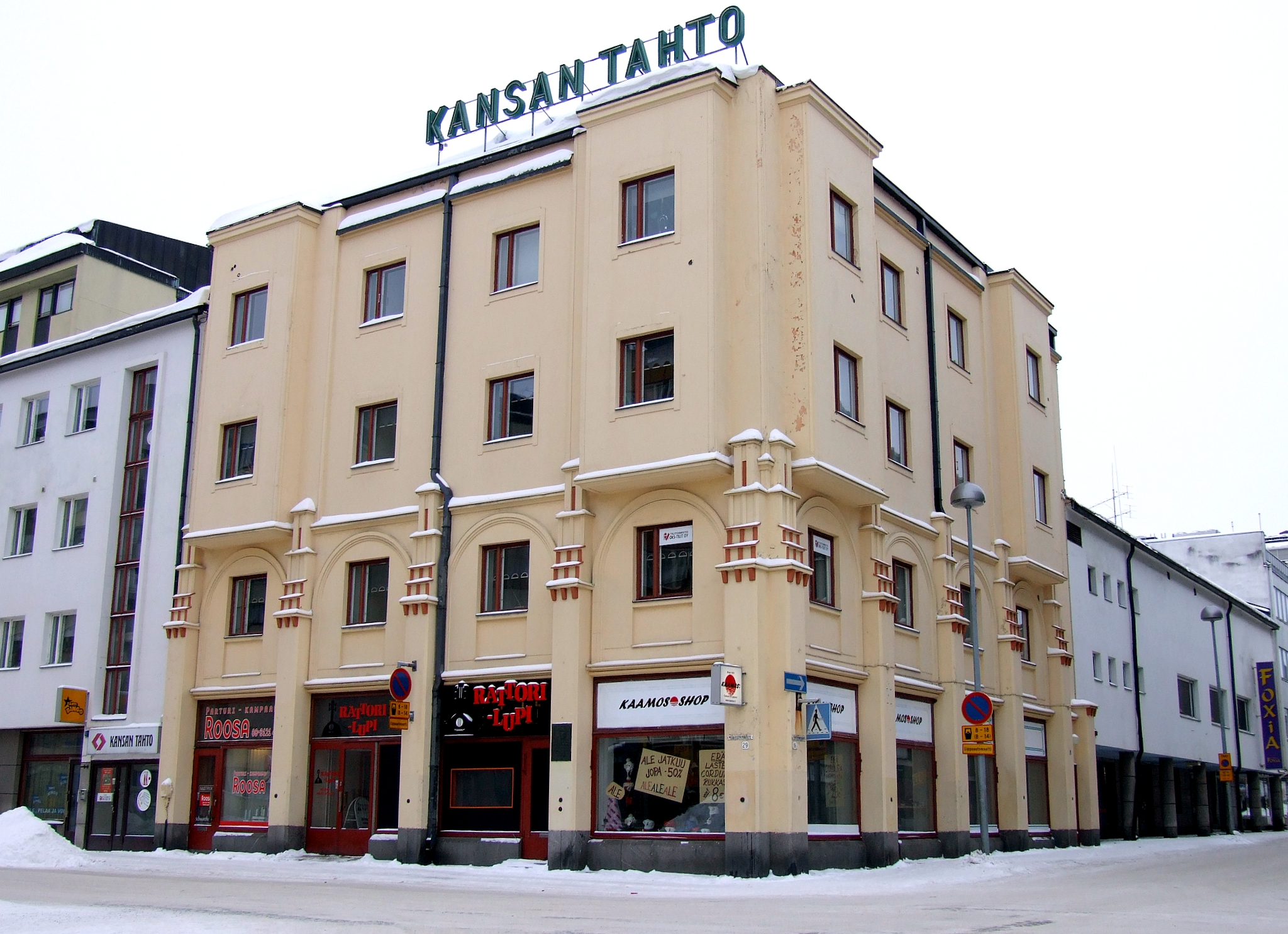 Editorial office of the newspaper Kansan Tahto Oulu, Finland